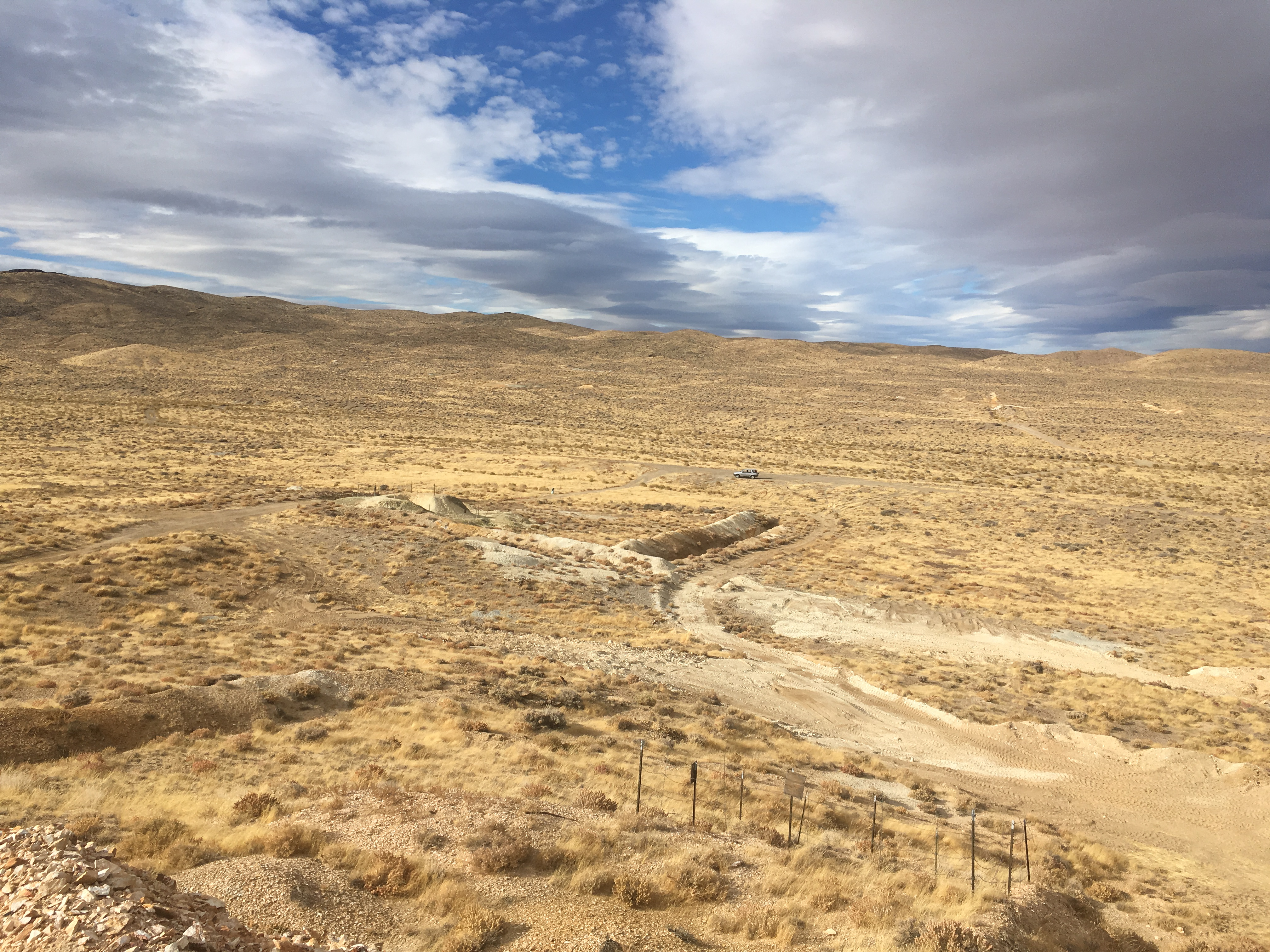 A view of the site of Jessup, Nevada from a nearby hill.